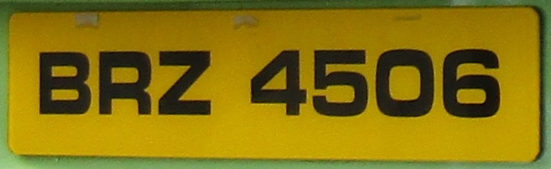 Northern Ireland (RZ=Antrim) rear license plate